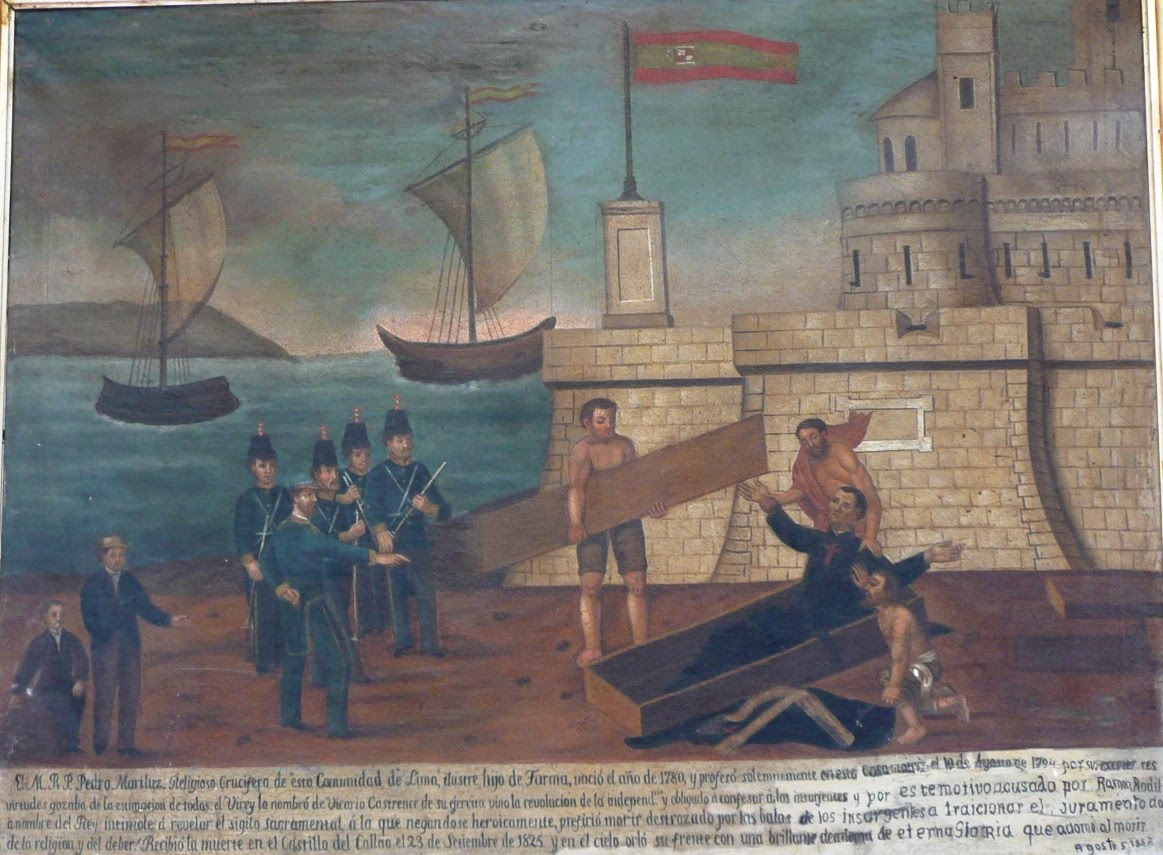 Translation of the inscription on the votive tablet: “The Very Reverend Father Pedro Marieluz, Cruciferarian* in this religious community of Lima, illustrious son of the city of Tarma, born in the year of 1780, made his solemn profession in this Motherhouse on 10th August, 1798. For his excellent virtues he was by all beloved. The Viceroy made him a chaplain of his army. Then came the revolution of the independence, and obliged to hear the confessions of the insurgents** and therefore charged by Ramon Rodil in the name of the King, the former intimidated him to reveal the sacramental seal, which he denied heroically, preferring to die smashed by the bullets of the insurgents rather than betray the oath of the religion and the duty. He was put to death in the Castle of Callao on 23th September, 1825, and once in heaven, on his forehead he wore a blinking diadem of eternal glory which adorned [him] while dying. / August 1887”- *) Local name for the order of Camillians in Peru.- **) “Insurgents” here are Royalists who keep on fighting after the surrender of the Spanish Viceroy on December 9th, 1824.